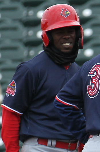 Adolis Garcia of the Memphis Redbirds gets checked out by coaches and trainers after getting hit in the head with a pitch during a 2019 game at Werner Park in Nebraska